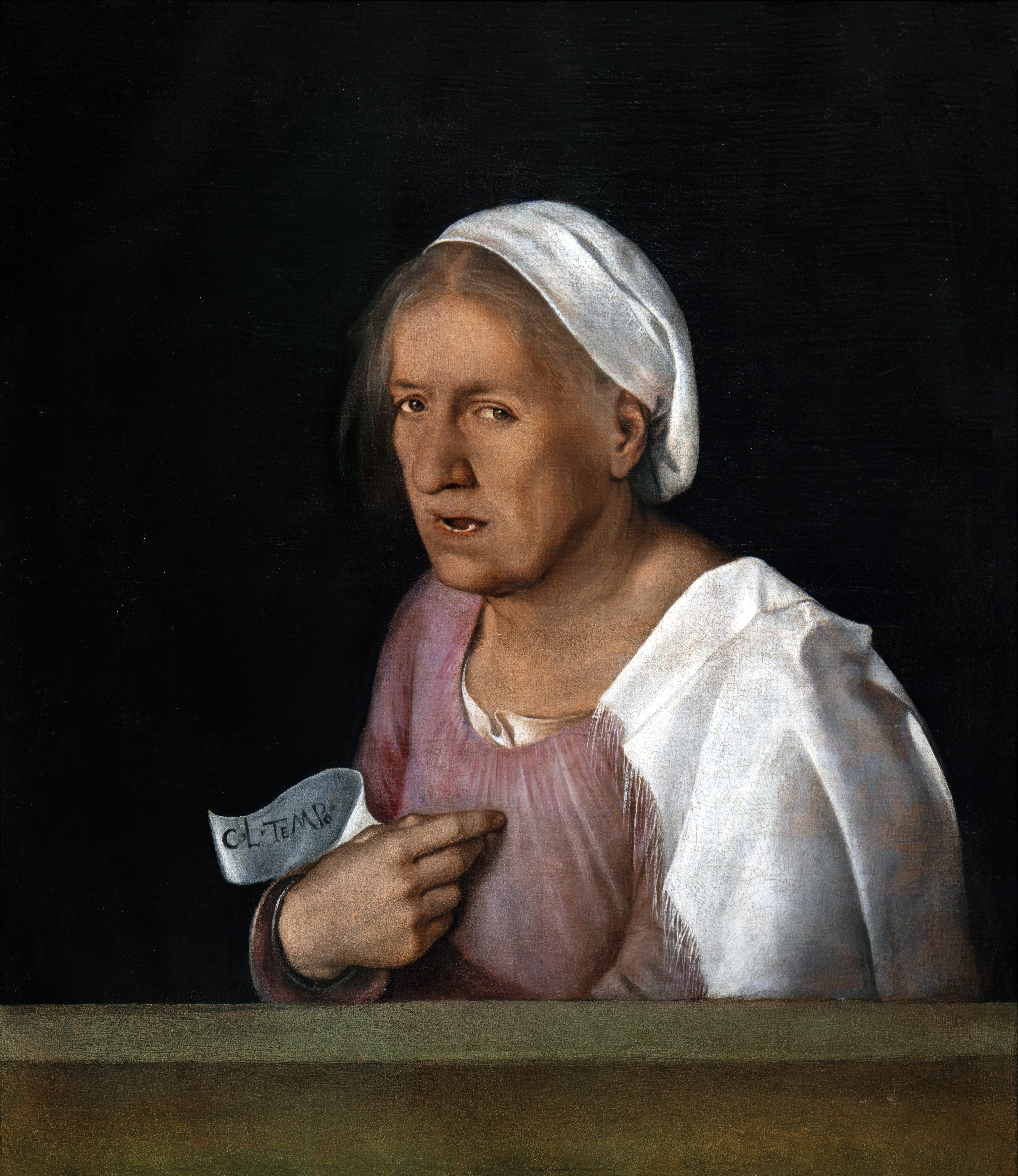 Col tempo Portrait of an old woman by Giorgione (1500-1510) Oil on canvas,Acquisition in 1856, purchased from the Manfrin Collection